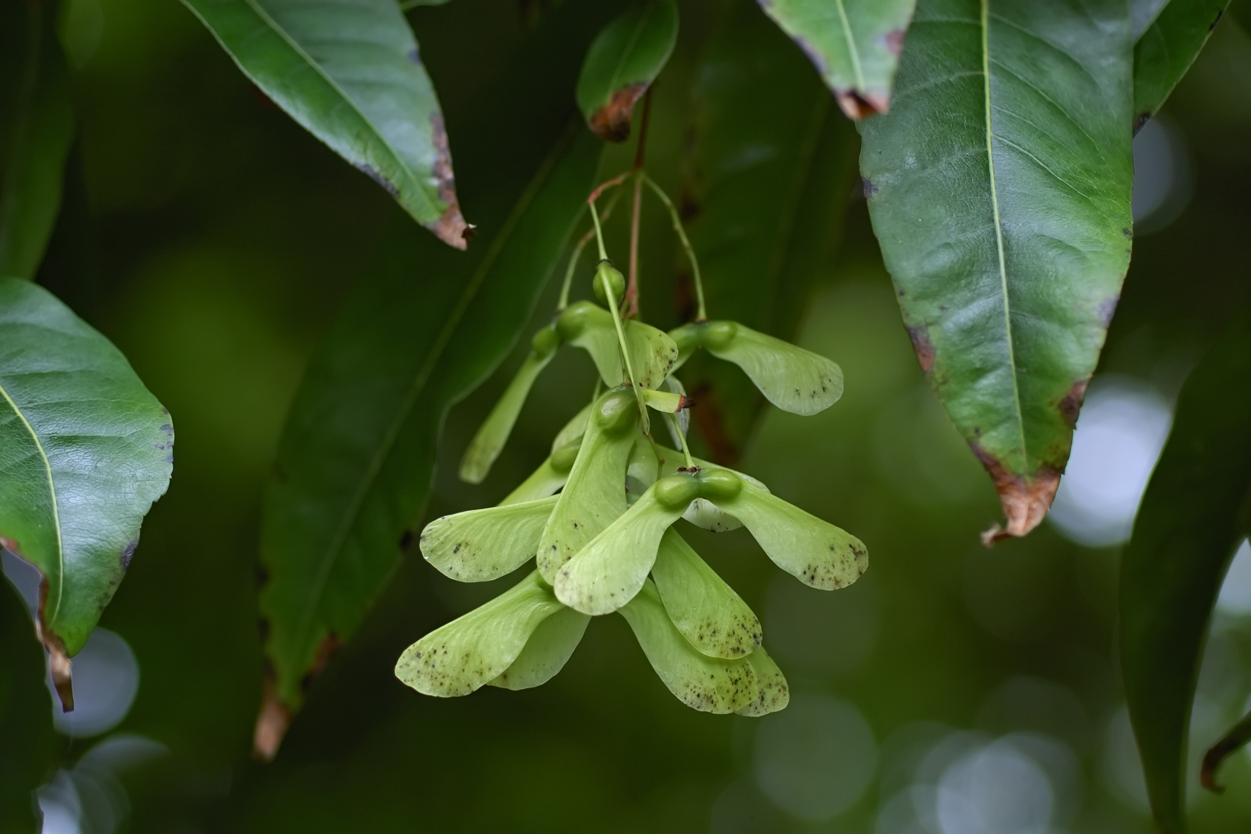 Acer laevigatum seeds, photographed at The San Francisco Botanical Garden at Strybing Arboretum